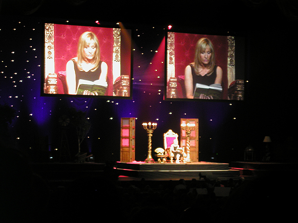 JK Rowling reading at Radio City Hall, New York.